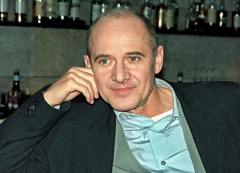 German actor Ulrich Mühe (20 June 1953 – 22 July 2007), at a ZDF photography session on 5 December 2005 in Cologne for the TV series Der letzte Zeuge (The Last Witness).